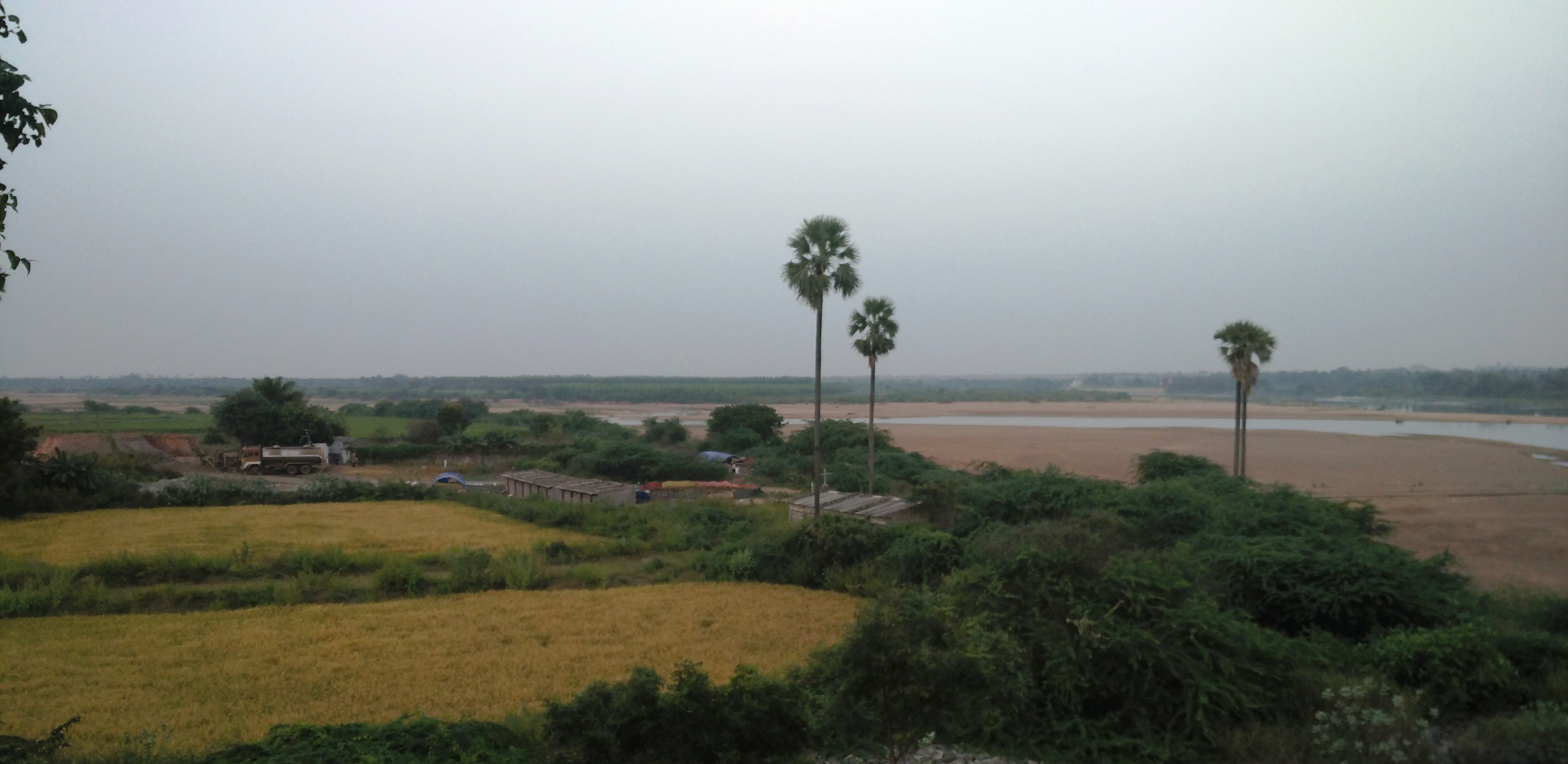 Munneru, a tributary of the Krishna River in winter season near Keesara Village, Kanchikicherla Mandal of Krishna District, A.P_A beautiful view from crop fields near by the river banks